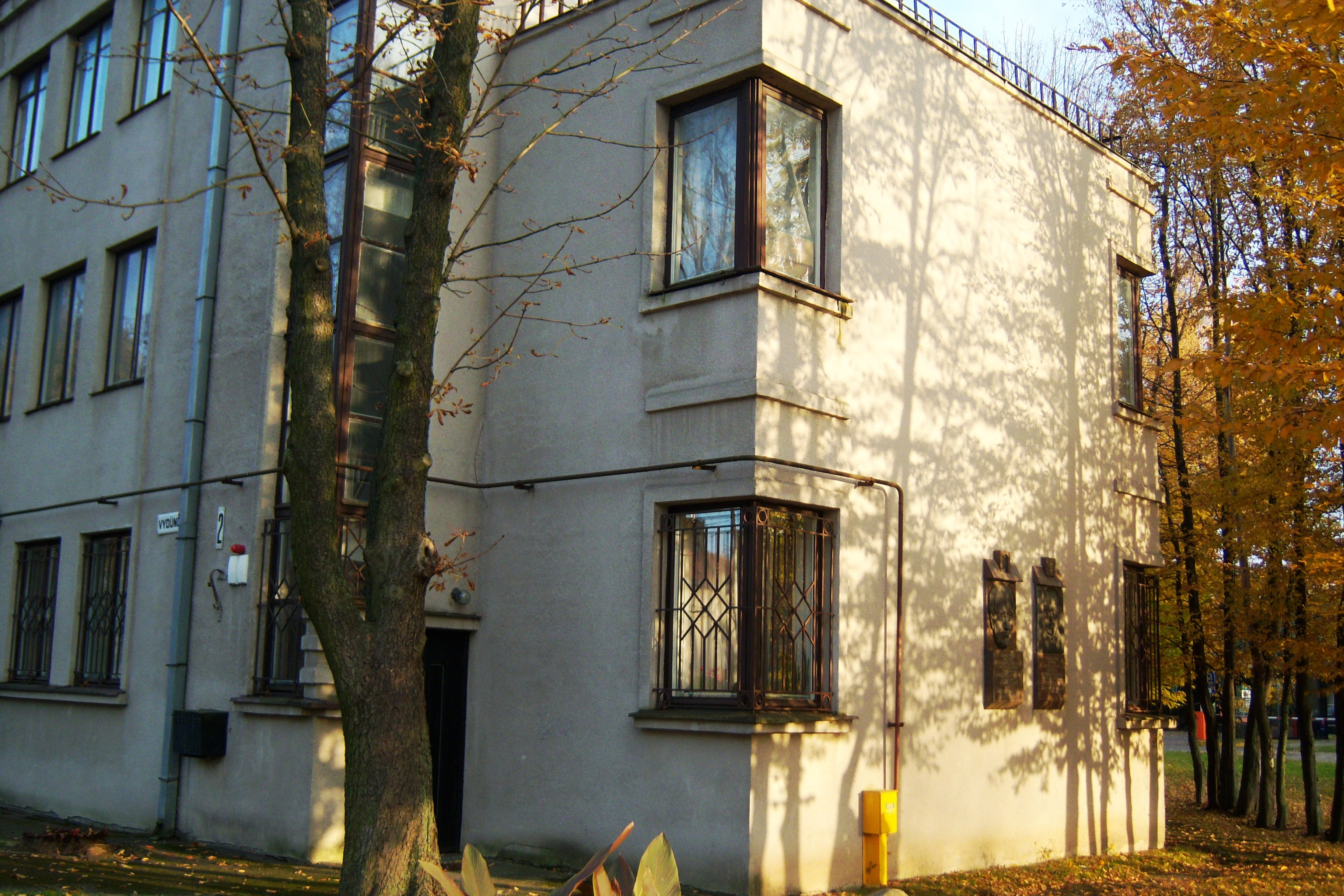 House of Galaunė, Vydūno al. 2, Kaunas, Lithuania